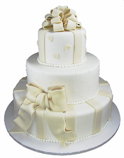 This "Cake in White Satin" with its pretty but oh so sophisticated hearts, bows and strand of pearls is a beautiful example of why fondant is such a popular wedding cake choice. Photo by Michael Prudhomme.